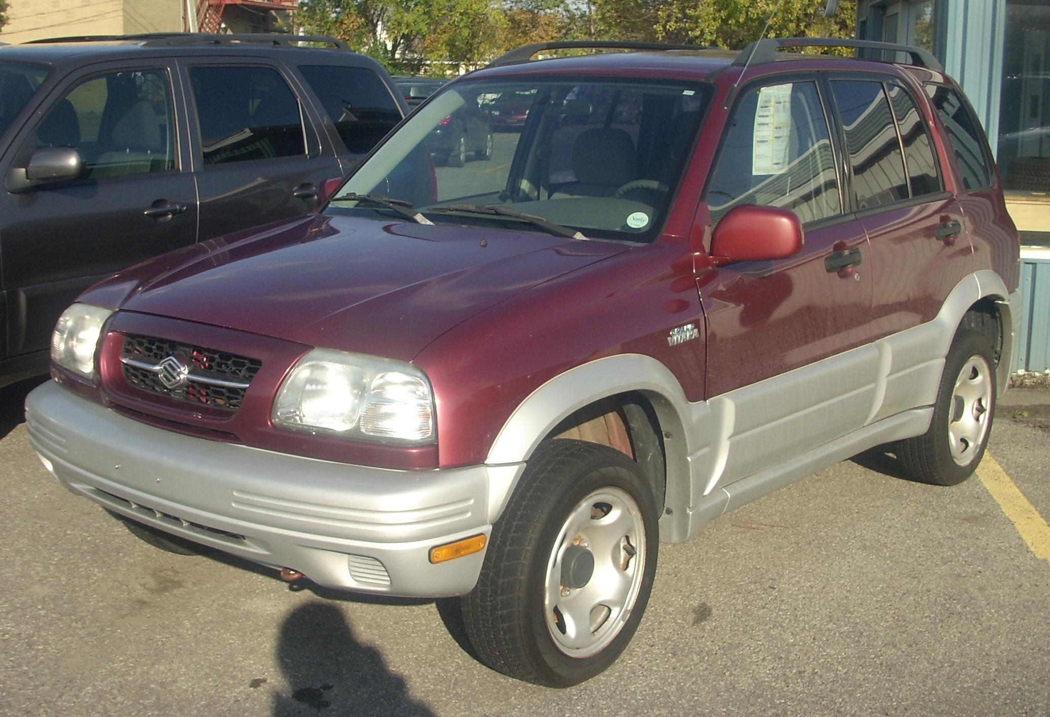 2000 Suzuki Grand Vitara photographed in Vaudreuil-Dorion, Quebec, Canada.